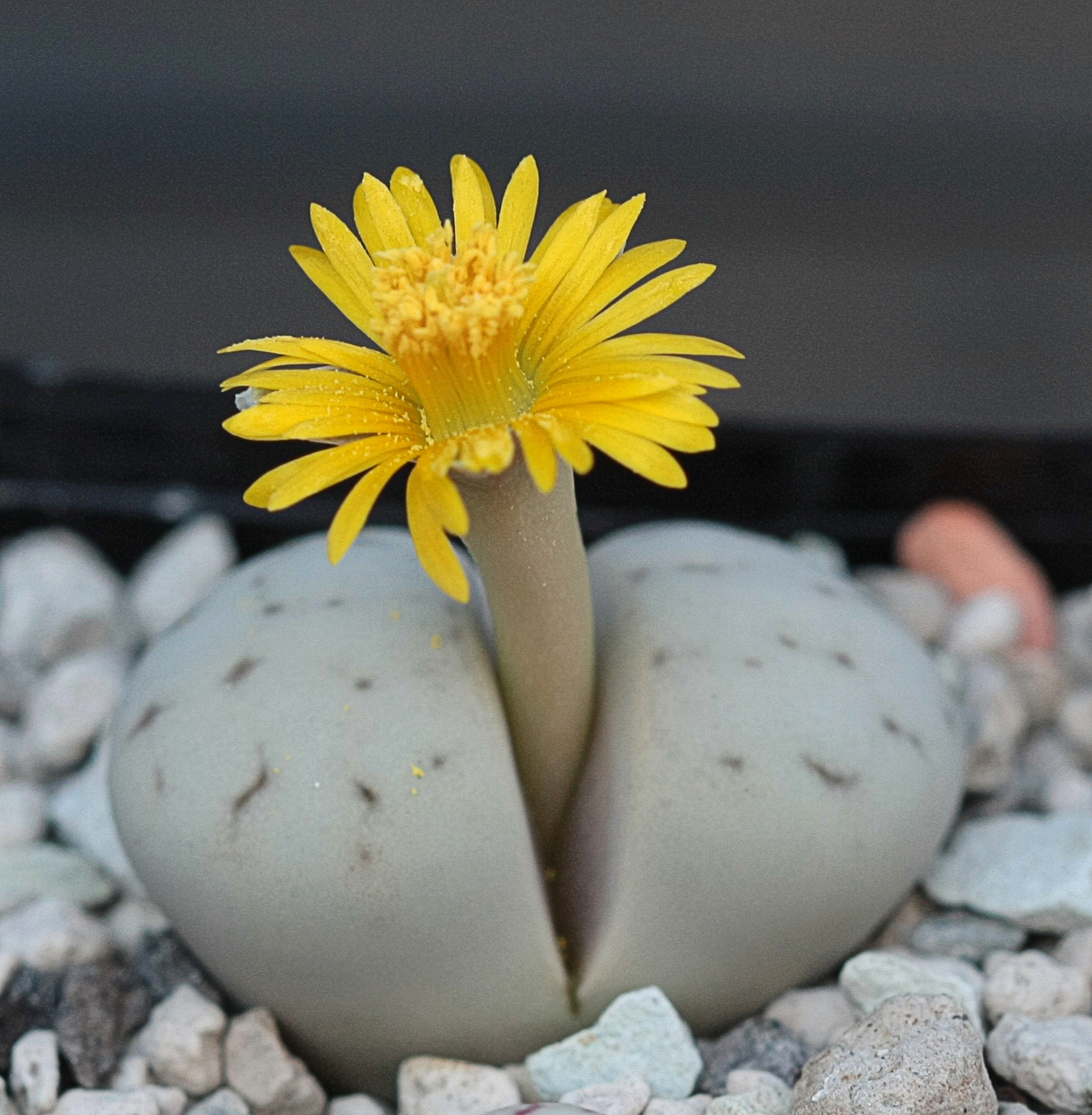 Lithops ruschiorum v. ruschiorum